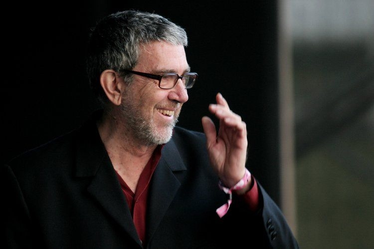 Salvador Pelejero conduct Percujove Youth Percussion Orchestra in Pohoda Festival 2008 (Slovakia)